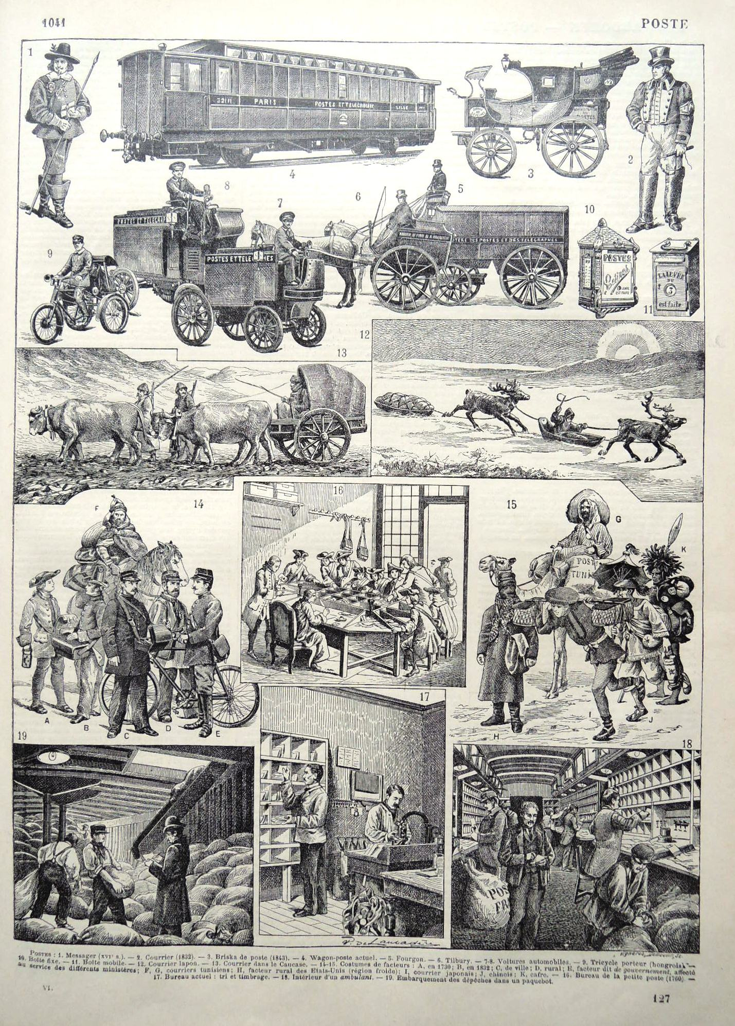 Post in 19th Century